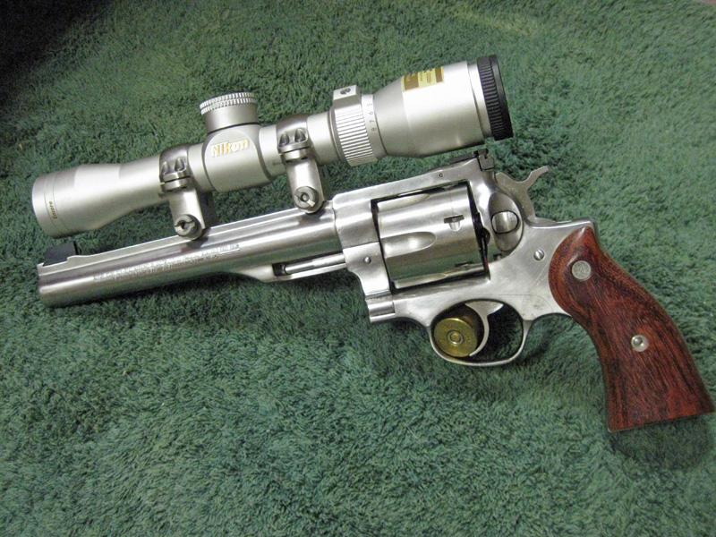 Mid 1980's Ruger Redhawk Hunter in .44RemMag w/ Nikon 2.5-8x 32mm scope